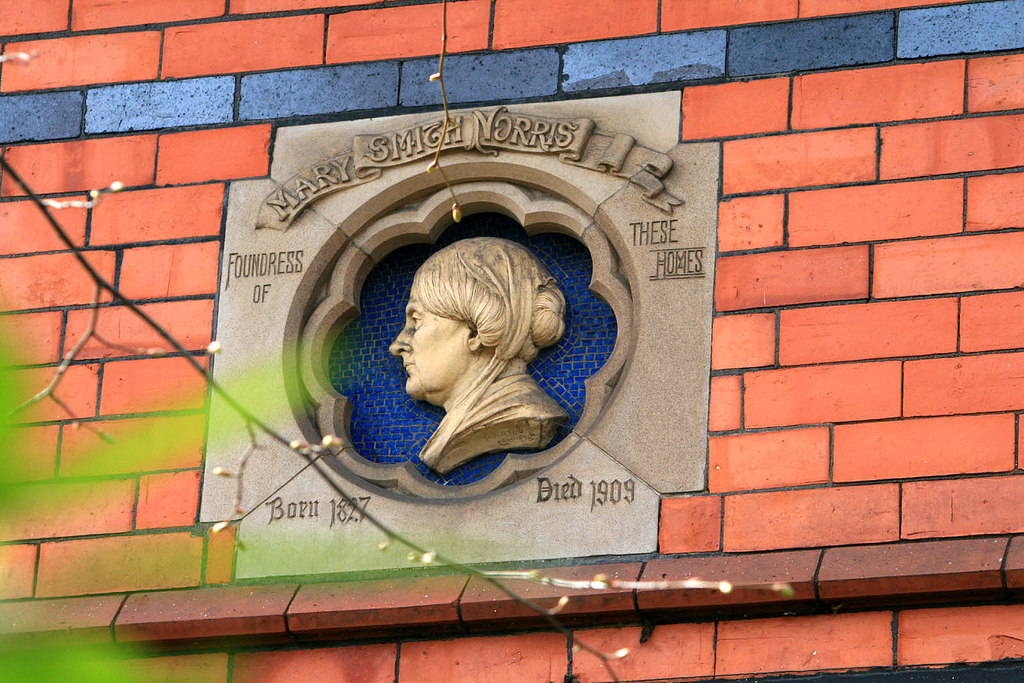 Profile of Mary Smith Norris. On the east end of the Norris Ladies Homes 1465419.